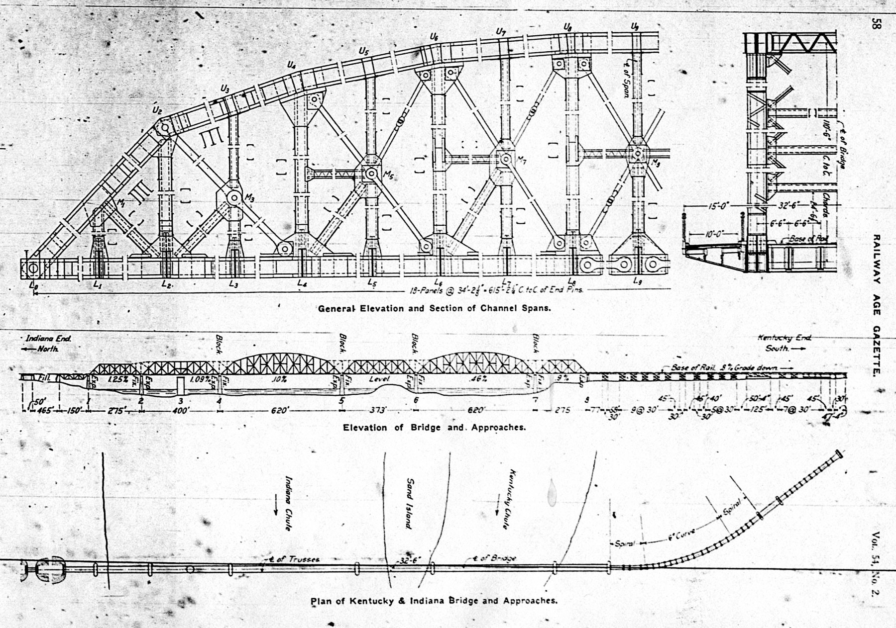 Elevation, plan and section of Kentucky and Indiana (K&I) Bridge